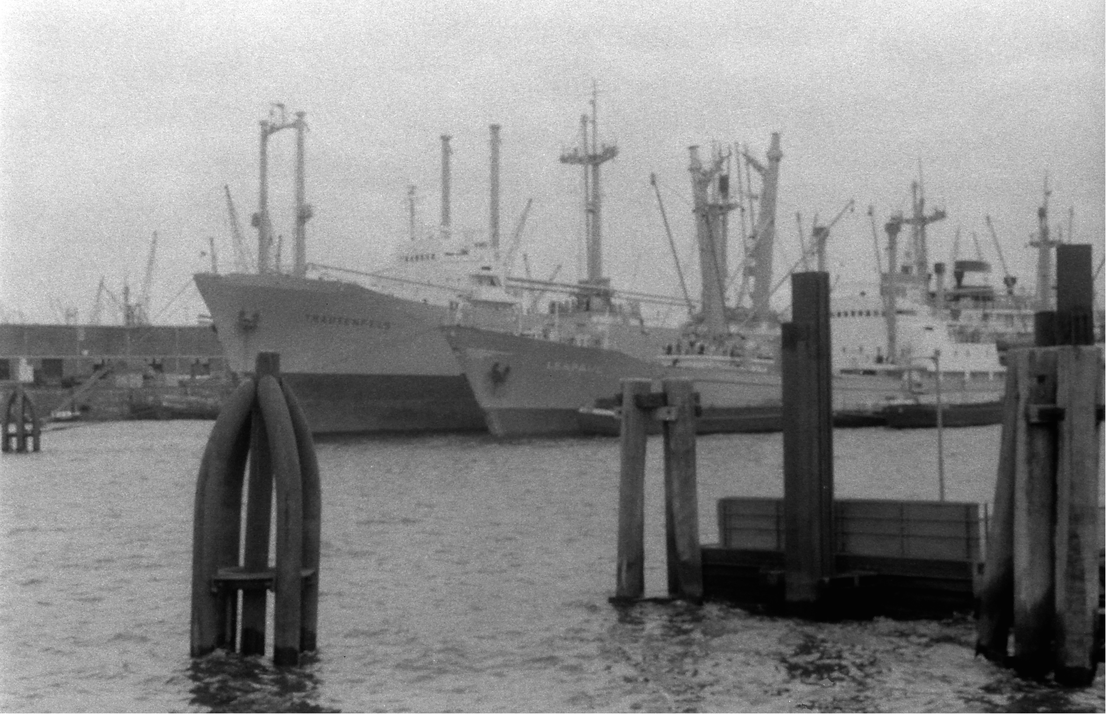 MS Leapaul of Lea Navigation Company and MS Trautenfels of the DDG Hansa in the Harbour of Hamburg in 1965